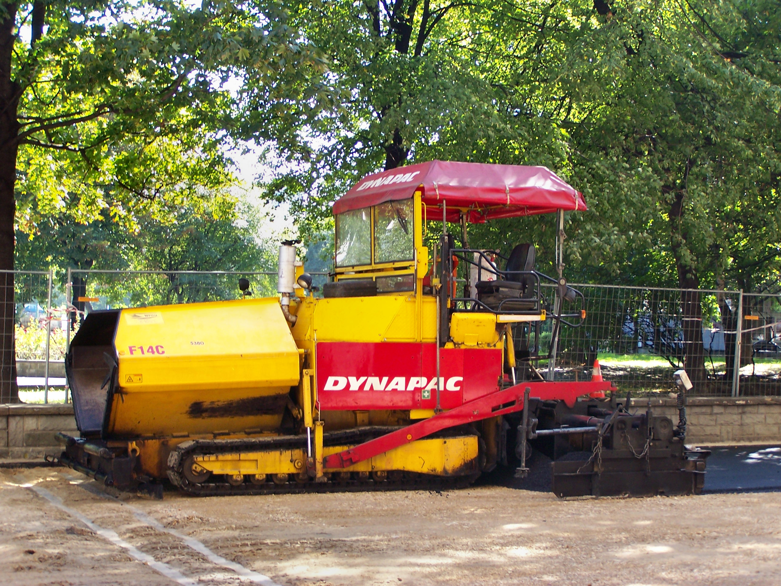 Dynapac F14C.